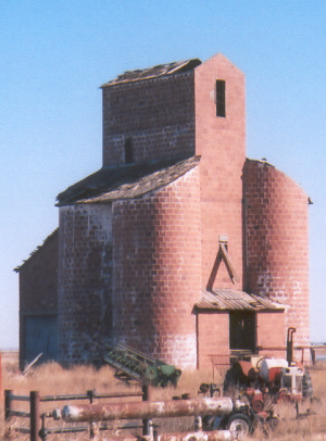 Photo of Ingersoll Tile Grain Elevator taken by me.